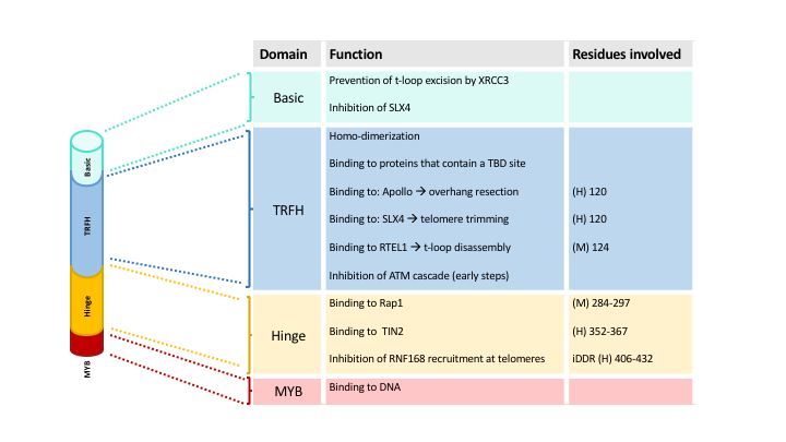 This diagram highlights TERF2 protein sequence mapping and domains and their functions